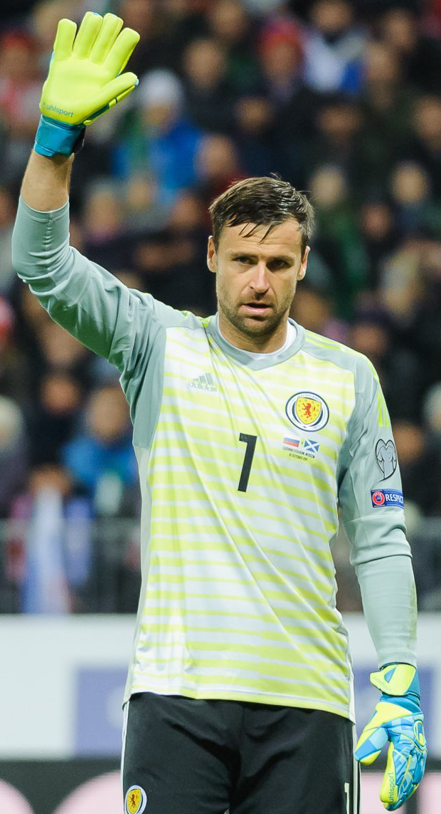 Scottish footballer David Marshall on 10 October 2019, during the 2020 UEFA European Championship qualifying match between Scotland and Russia in Moscow.